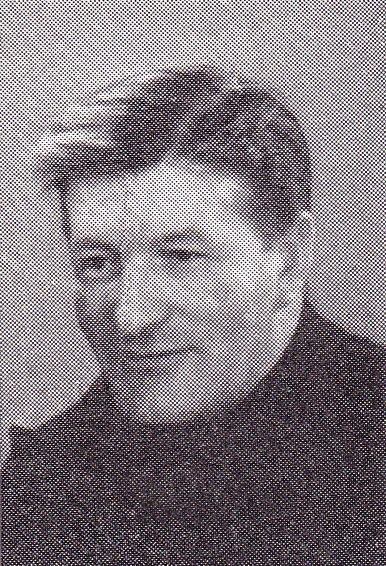 Korpela movement leader Arthur Niemi, deceased in 1936.